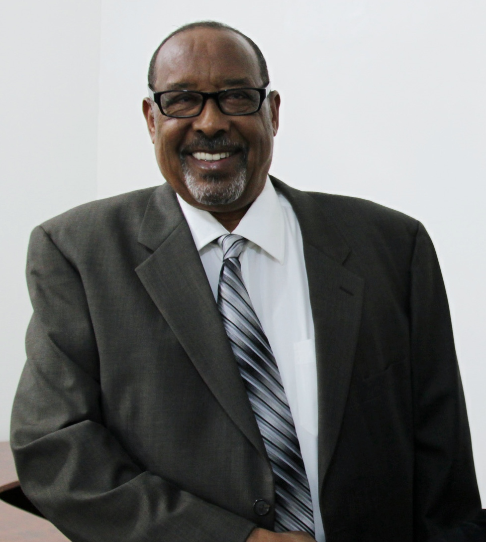 Silanyo Portrait